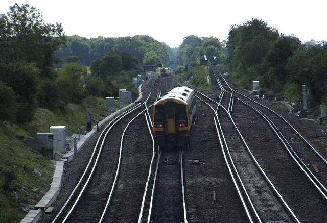 Worting Junction